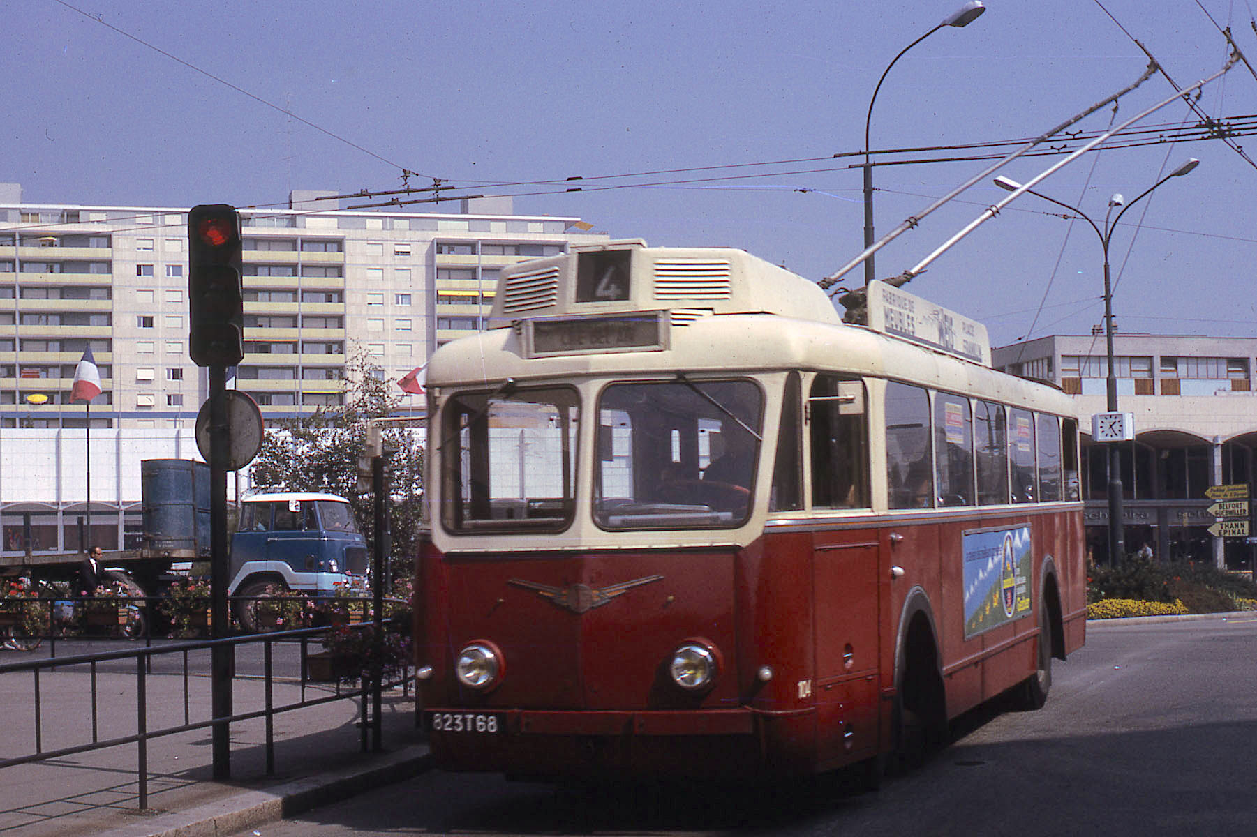 Trolleybus 104 of TCM (Transport en commun de Mulhouse), on route 4, near the Porte Jeune in Mulhouse, France, in 1966. No. 104 was a 1947 Vétra VBR-model trolleybus.